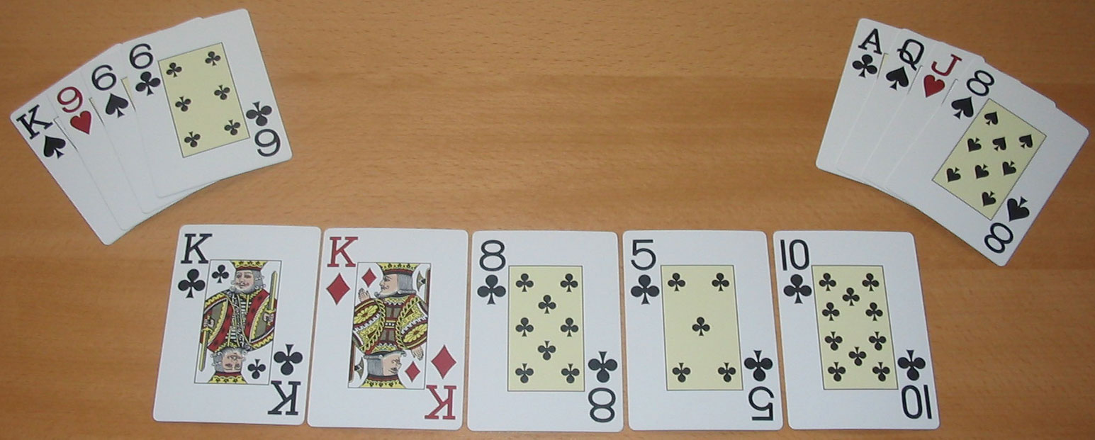 A showdown in Omaha hold 'em. Player on the left wins with 3 kings. As opposed to Texas Hold Em, only 3 community cards can be used to make a hand. Left Player has a hand of Kc-Kd-Ks-Tc-9h. Right Player has a hand of Kc-Kd-8c-8s-Ac